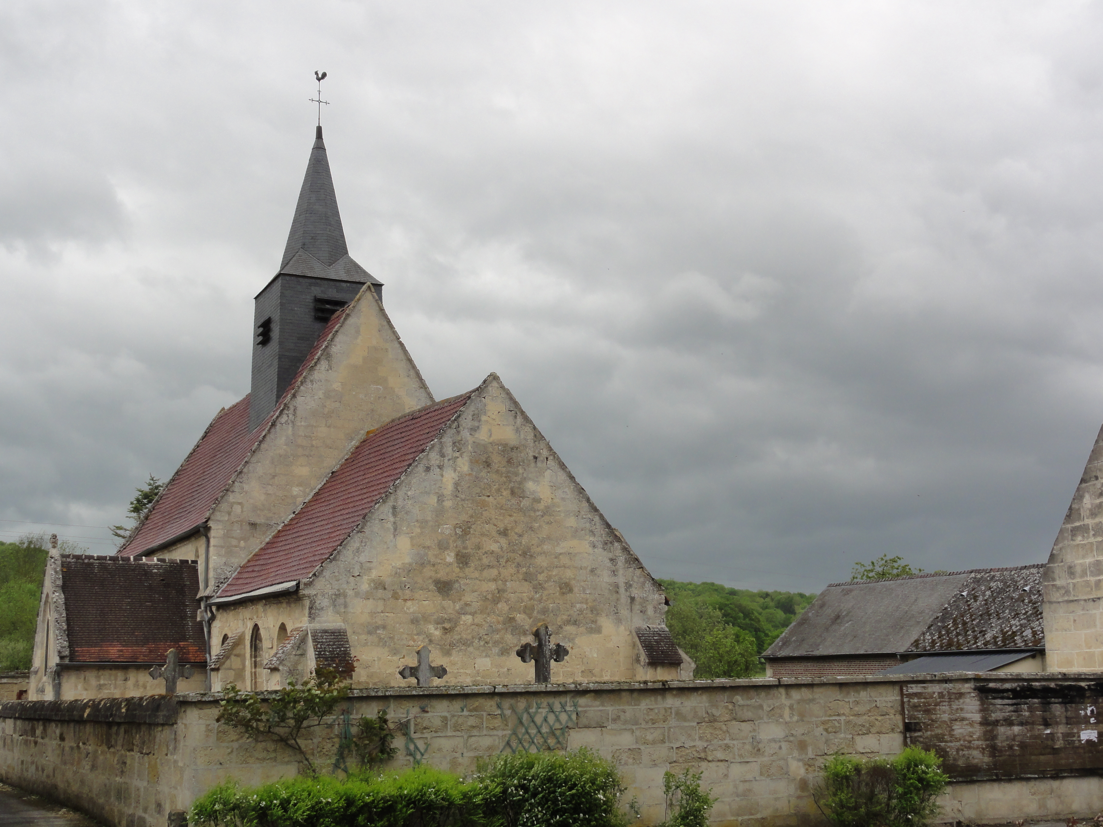 Brie (Aisne) Église Saint Quentin